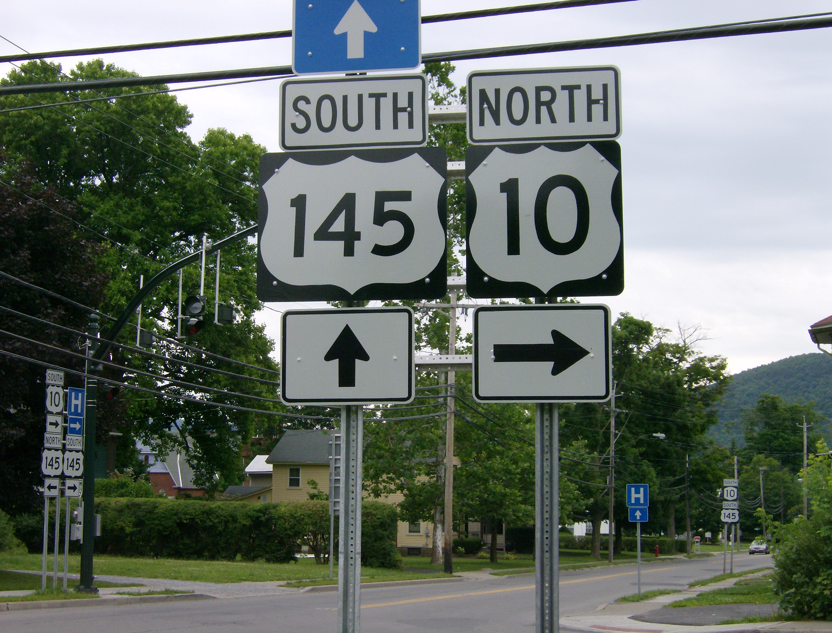 Erroneous US shields of Routes 10 and 145 in Cobleskill showing the beginning of a short concurrency in the village.